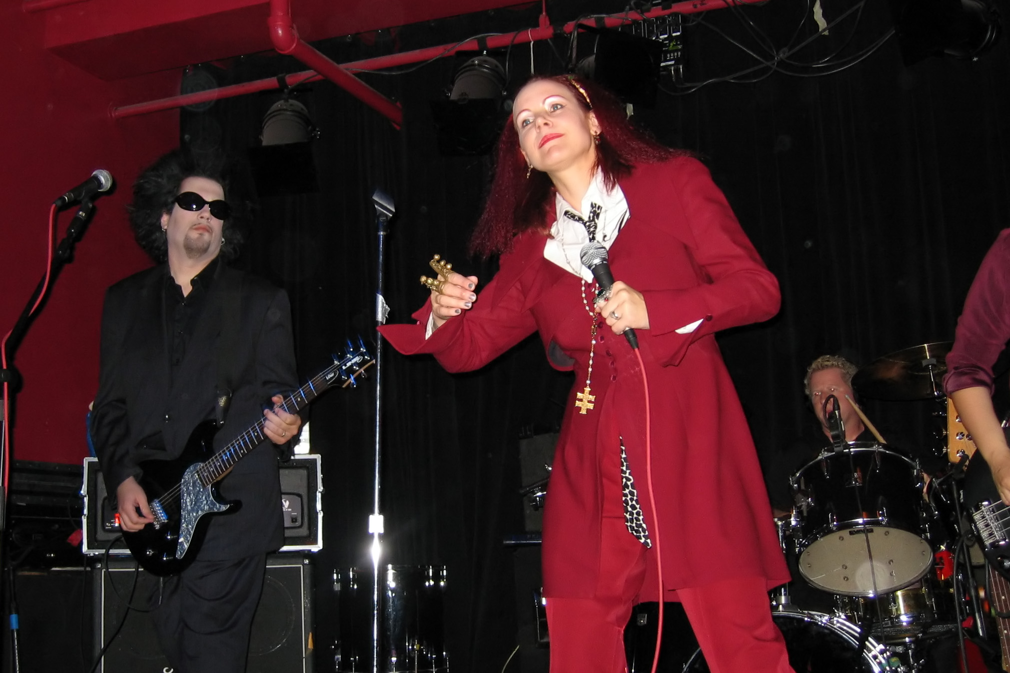 The goth-rock american band Faith & The Muse in concert